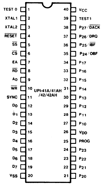 Pinout Intel 8041